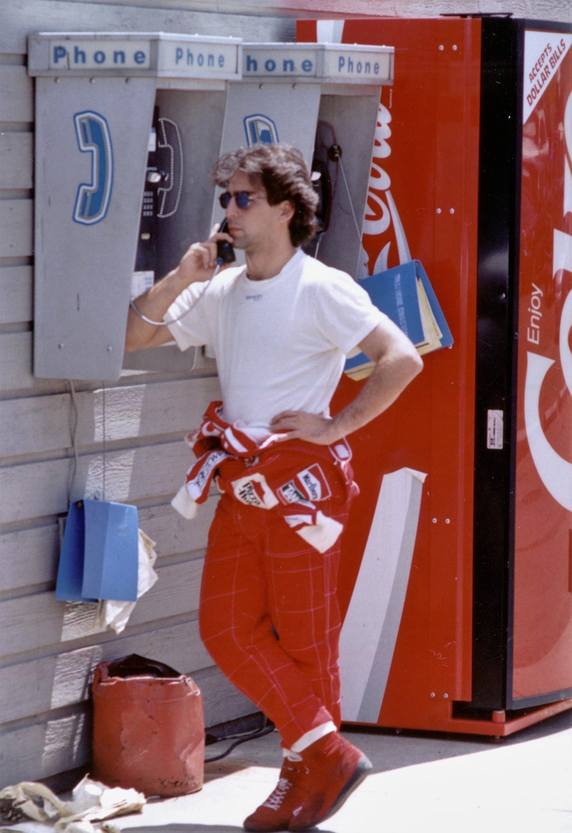 CART series driver André Ribeiro at Mid-Ohio Sports Car Course in June 1995.